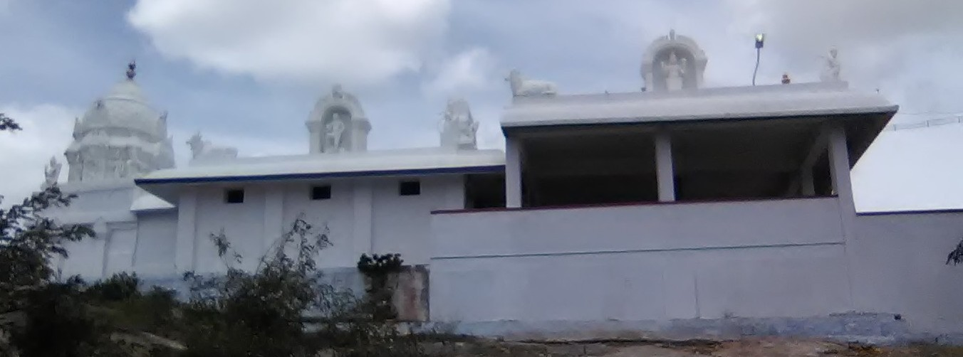 பாலகொண்டராயசாமி கோயில் பக்கவாட்டுத் தோற்றம்